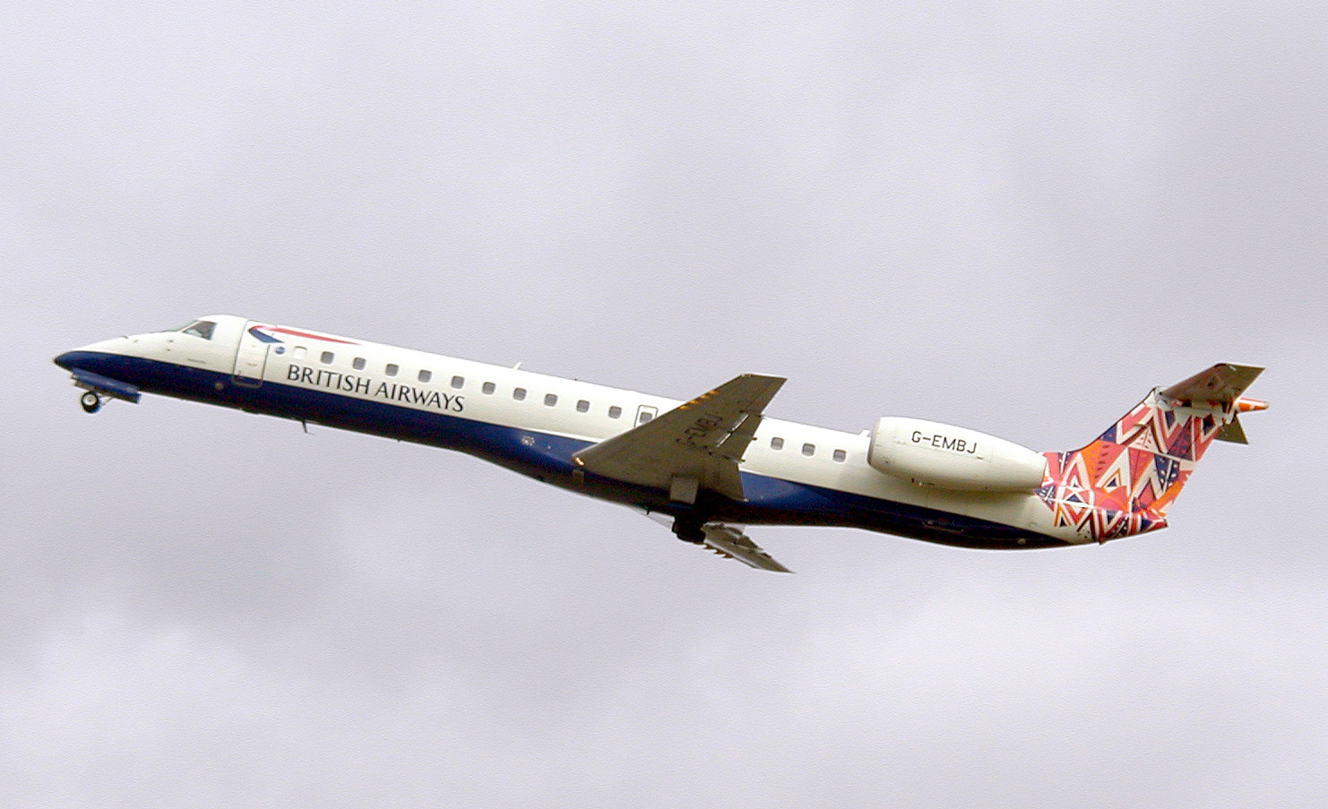 British Airways tail scheme “Market Day” (also called Youm al-Suq?) on an Embraer ERJ 145 (G-EMBJ) taking off from Bristol Airport, Bristol, England. Taken by Adrian Pingstone in October 2003 and released to the public domain.